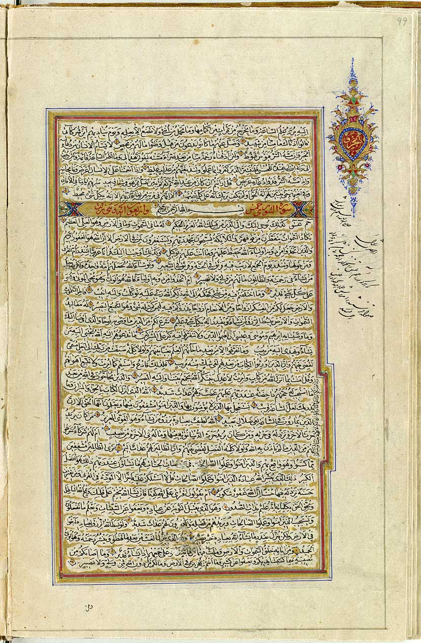 Scan of a Qur'an from the year 1874